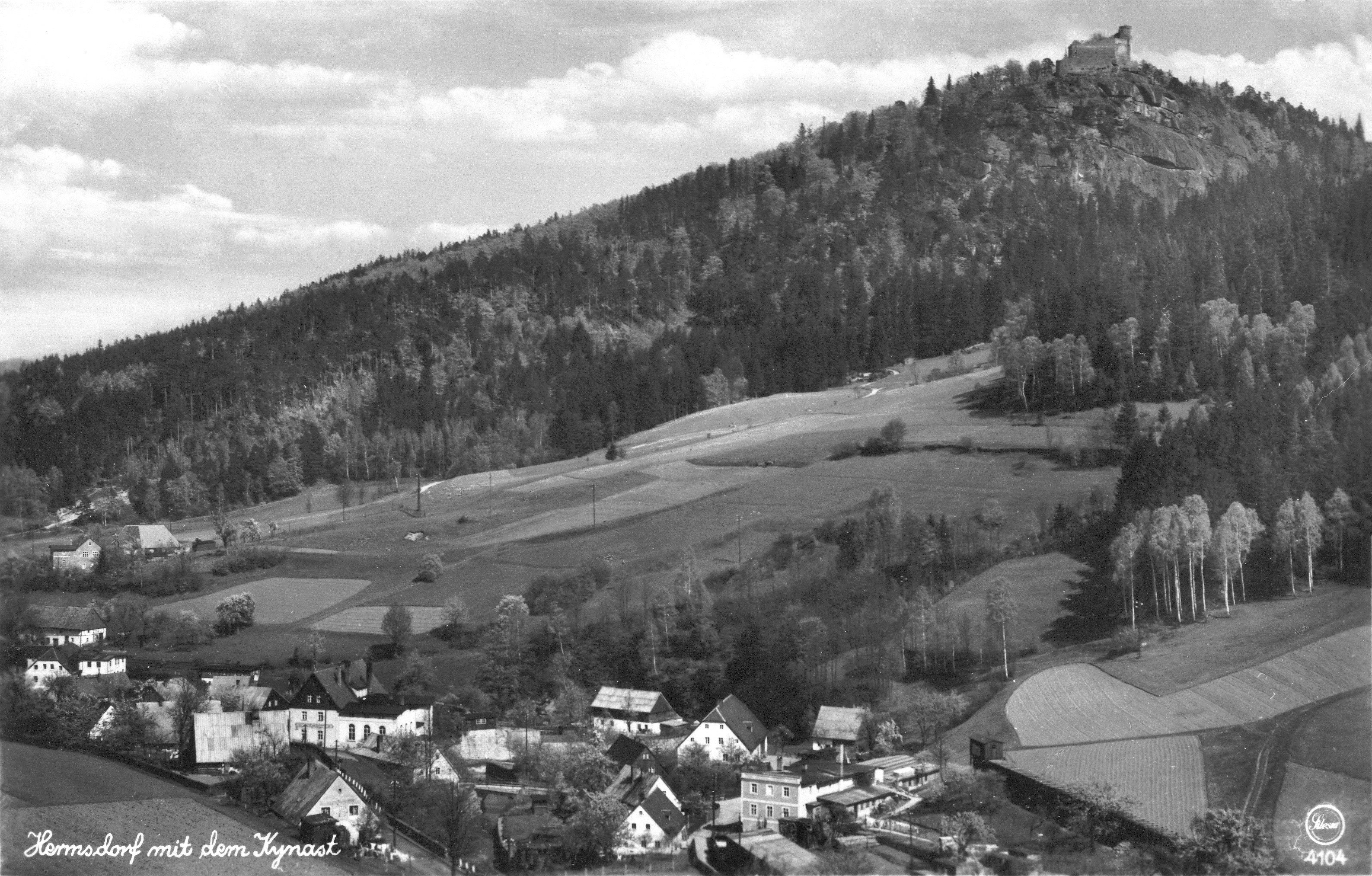 Castle Chojnik from Sobieszow.